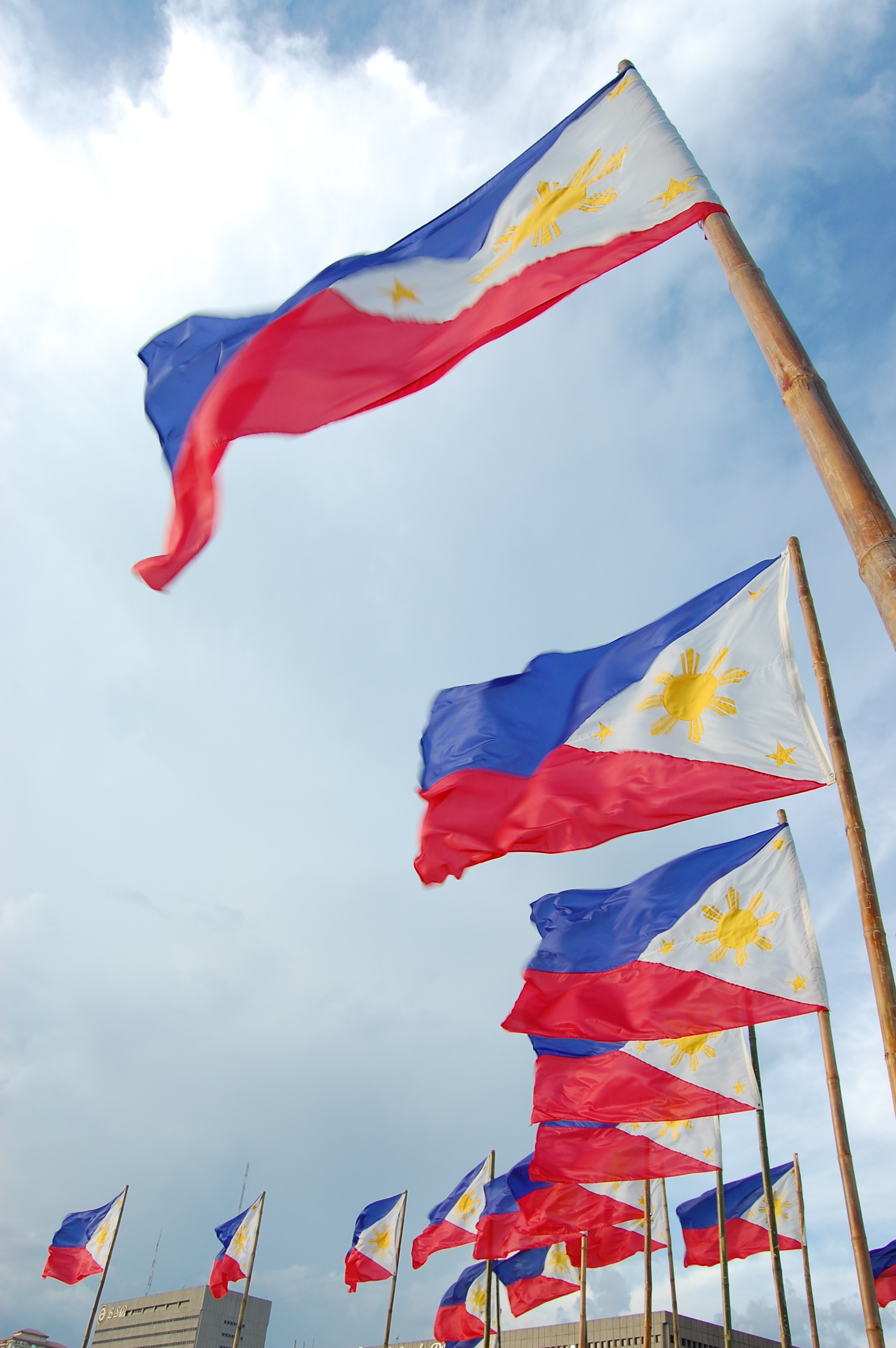 Philippine flags on bamboo poles near the CCP complex